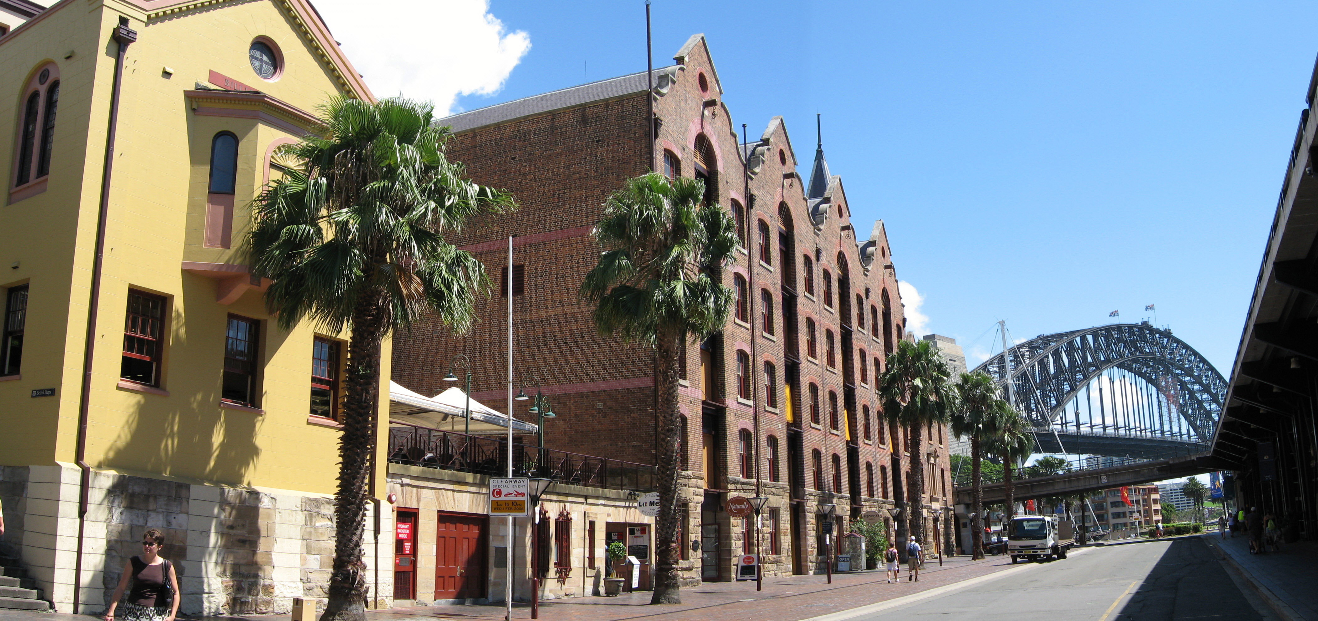 Buildings (including the ASN Co Building) in Circular Quay West, The Rocks, Sydney, Australia.